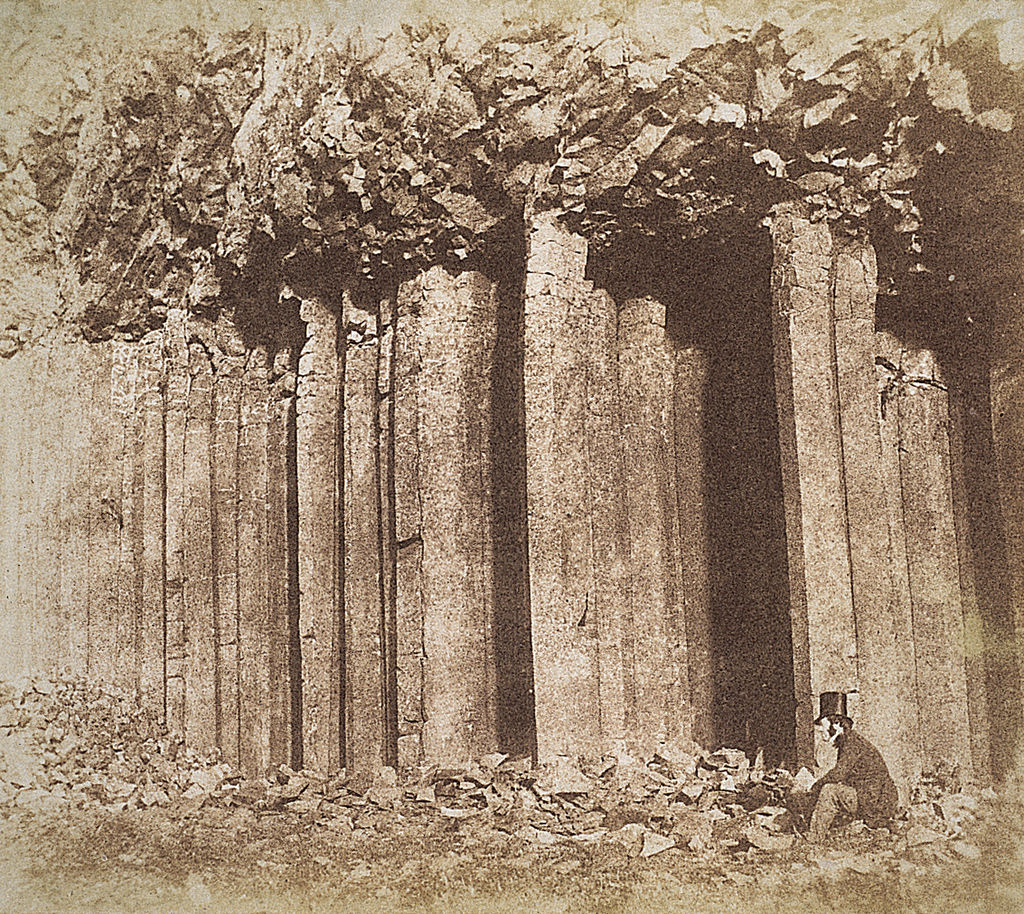 John Muir Wood about 1850 Accession no. PGP W 70 Medium Salt paper print from a calotype negative Size 17.10 x 19.30 cm Credit Presented by the Muir Wood family 1985 For more information please select Muir Wood&submit=1 here.